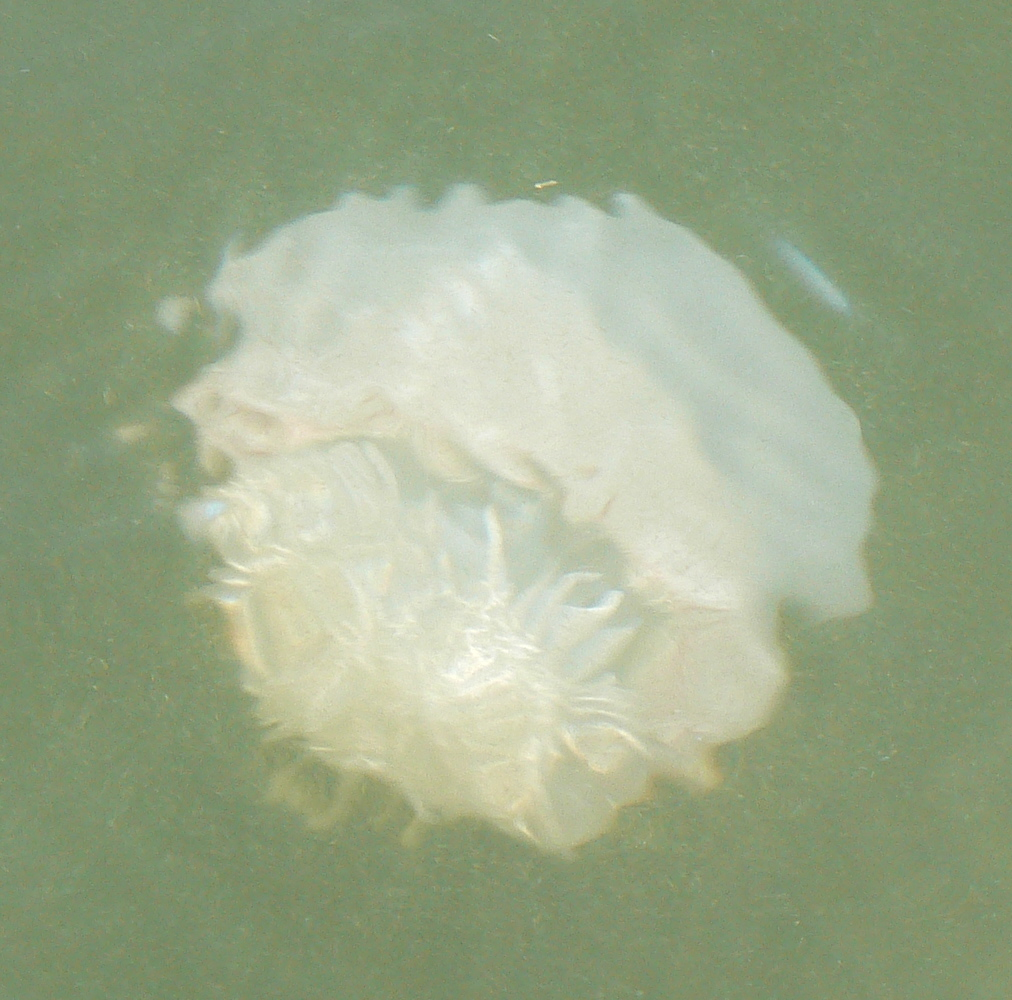 A Cannonball Jellyfish (Stomolophus meleagris) in the water near Dog Island, Florida.